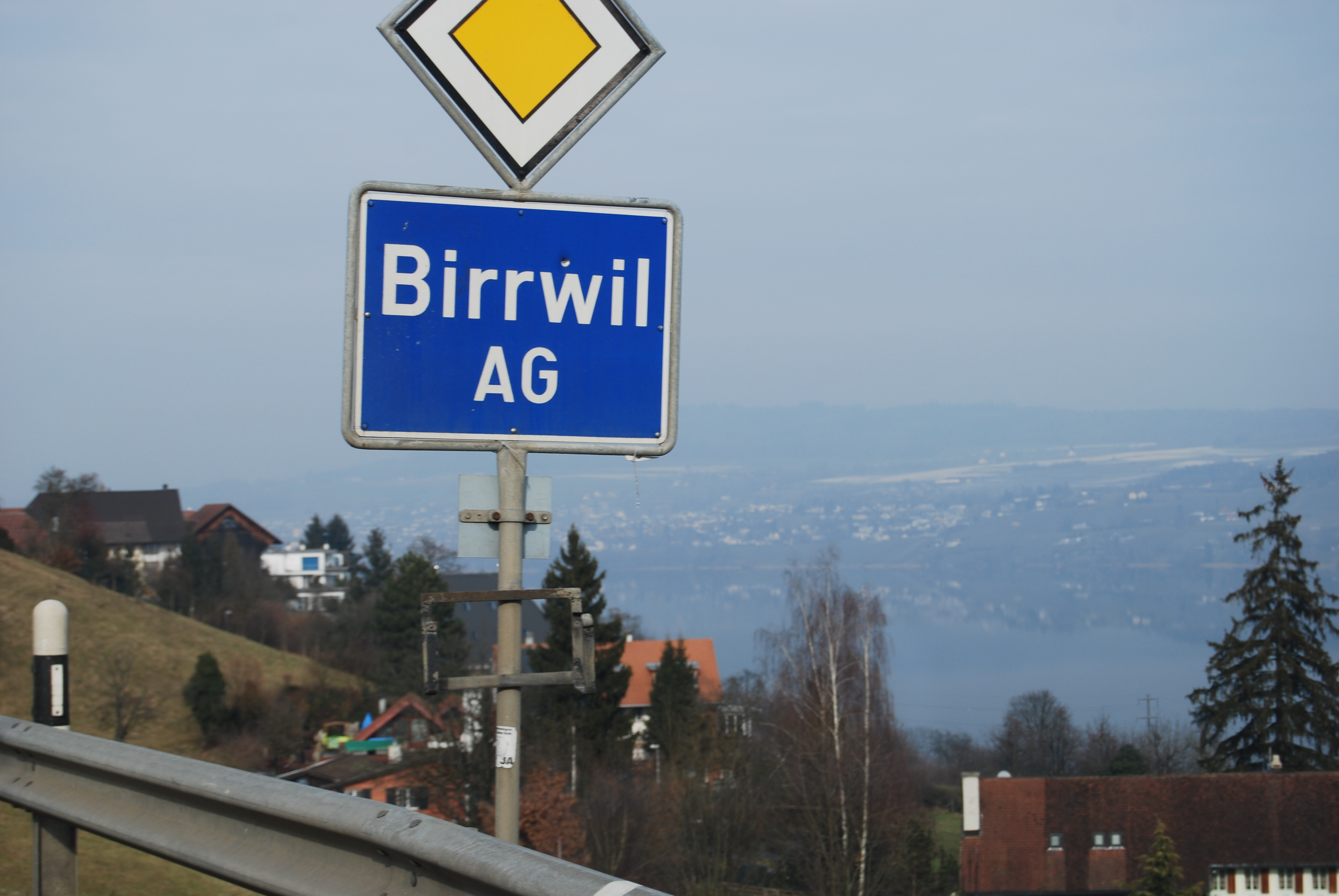 Village entry of Birrwil comming from Beinwil and view to Lake Hallwil, canton of Aargau, SwitzerlandEsperanto: Vilaĝeniro de Birrwil venante de Beinwil kaj vido al la Lago de Hallwil, Kantono Argovio, Svislando